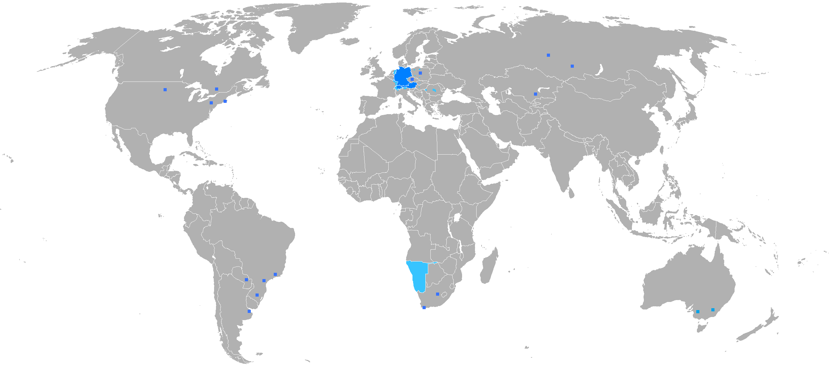 Legend: native language Secondary language, "national language" or non-official. German minorities